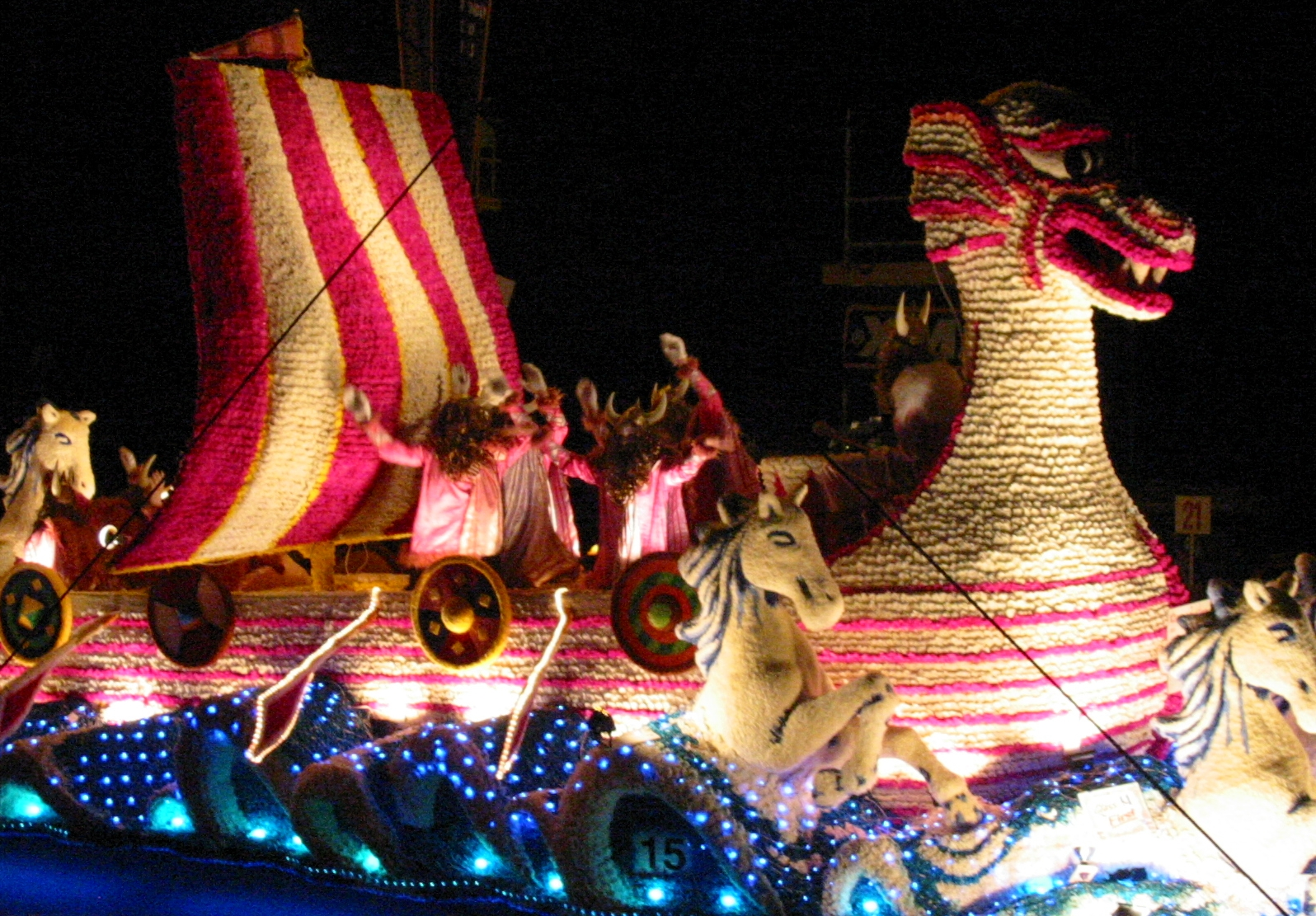 Battle of Flowers float 2007 Moonlight Parade Valhalla - Viking Sacrifice by the Optimists Club, winners in 2007 of the Prix d'Excellence, the Peter Styvesant Trophy, the Spectators' Award, Best Illuminated float over 25ft, and winner of Class 11